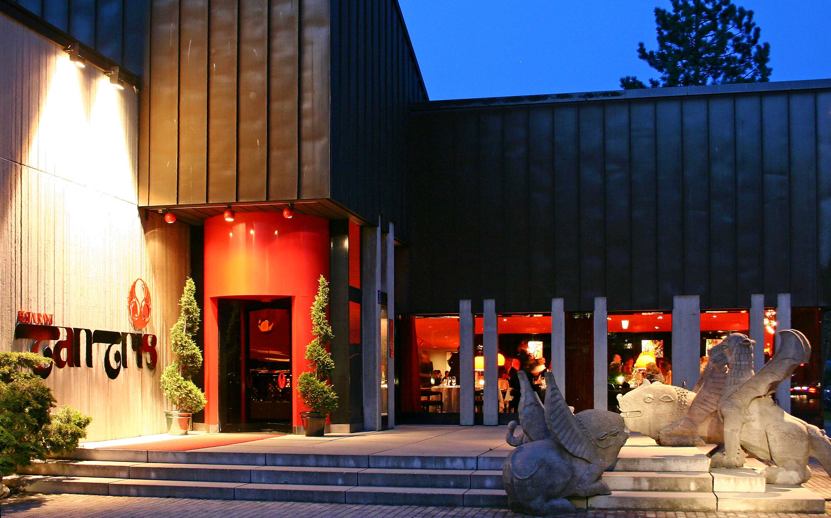 Tantris Restaurant in Munich, Bavaria.